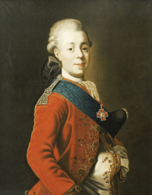 Portrait Of Grand Duke Pavel Petrovich Romanov